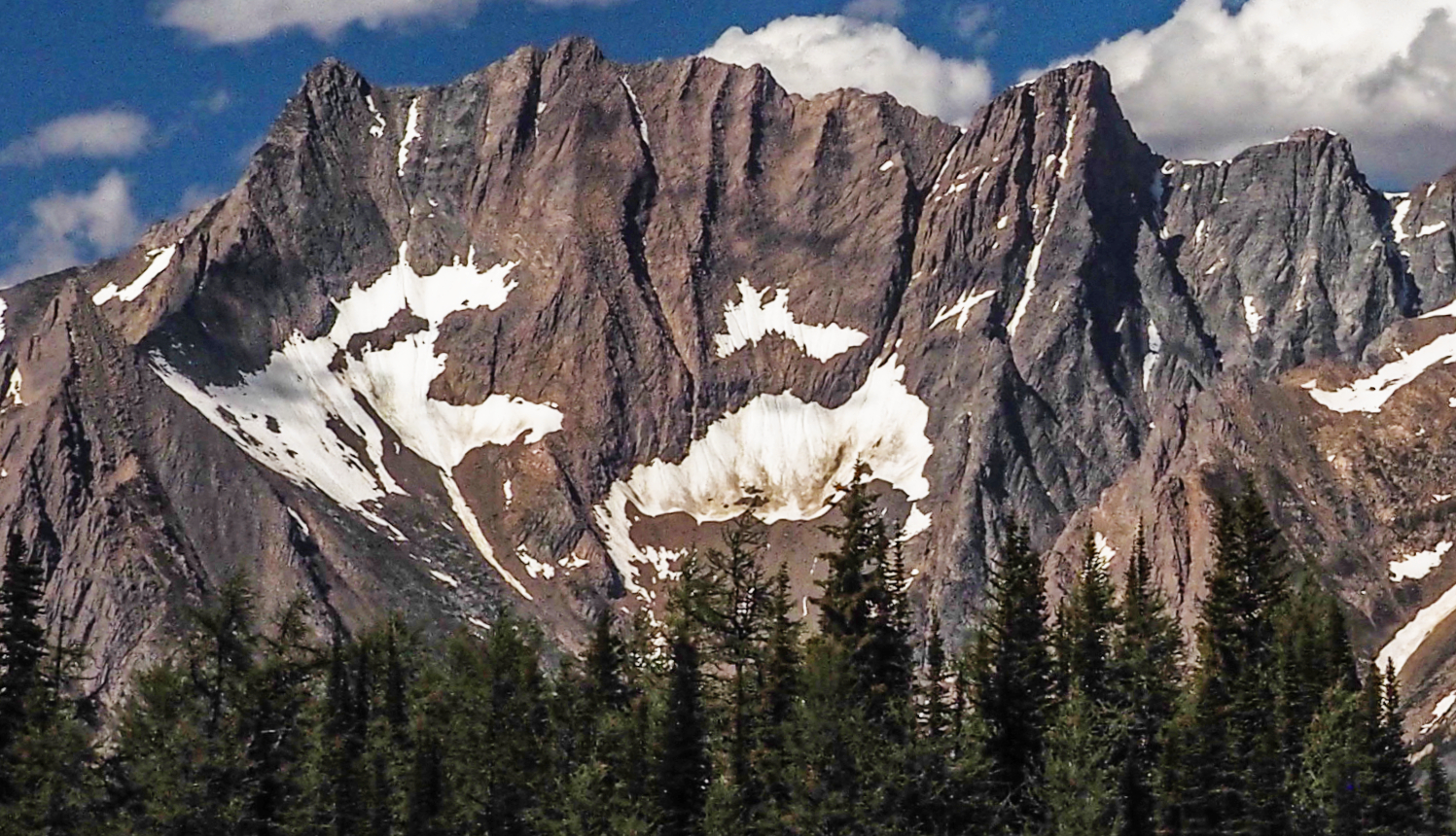 The Lieutenants